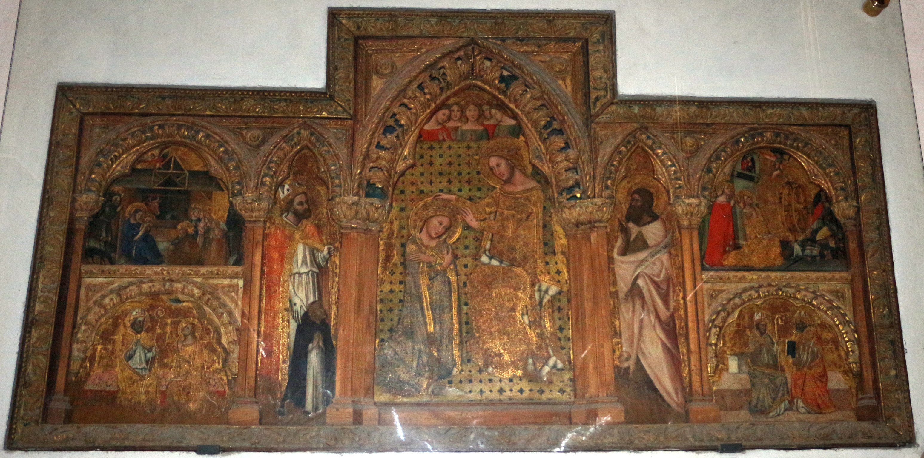 San Salvatore (Bologna)